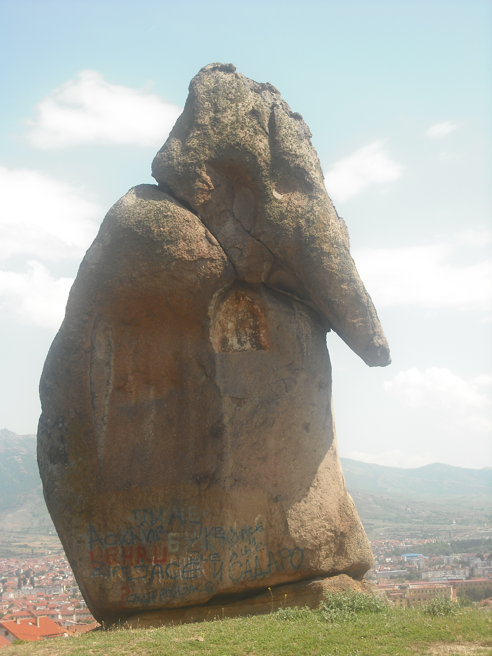 The elephant rock near Prilep, Republic of Macedonia